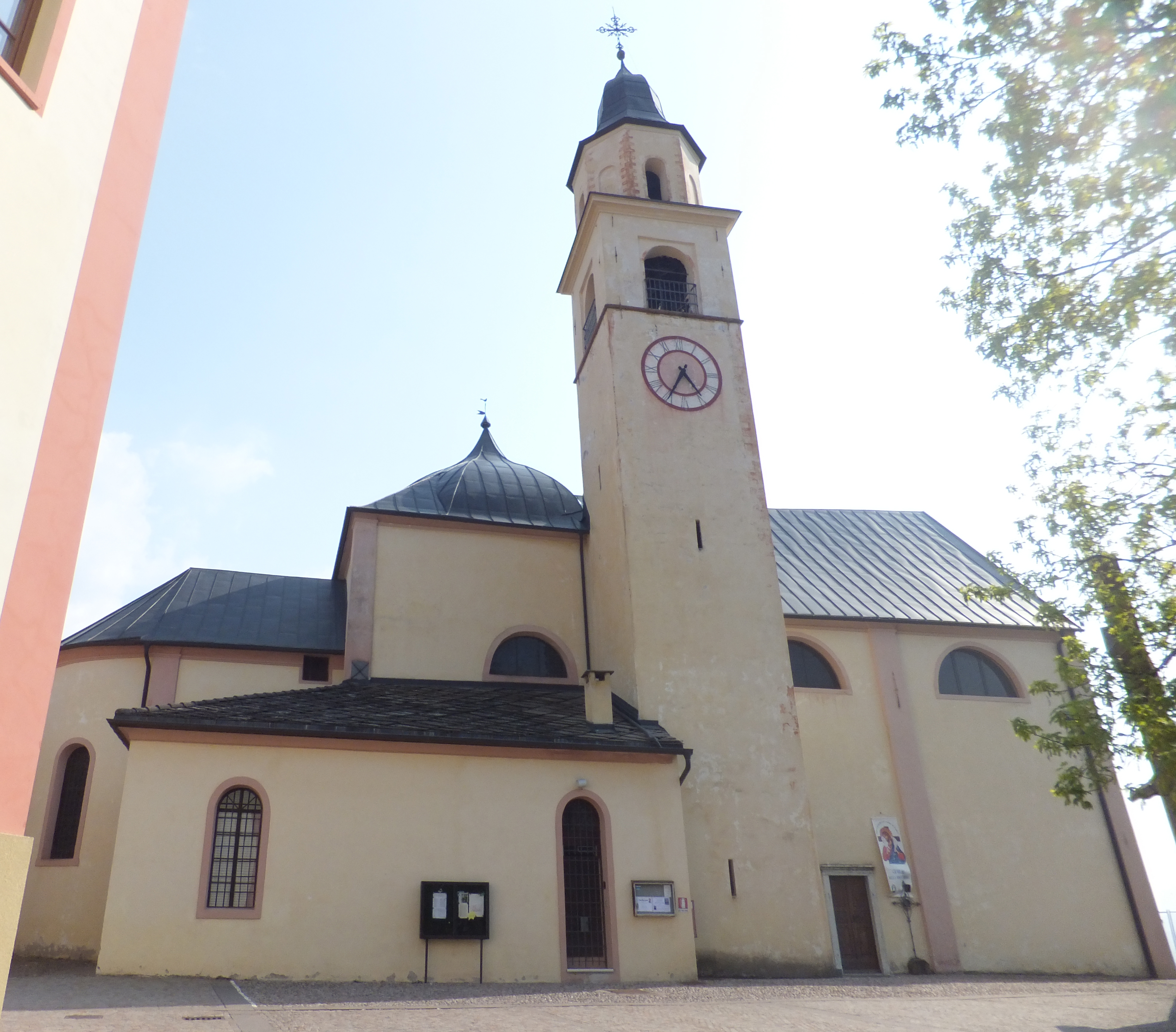 Segonzano (Trentino, Italy) - Holy Trinity church - side view